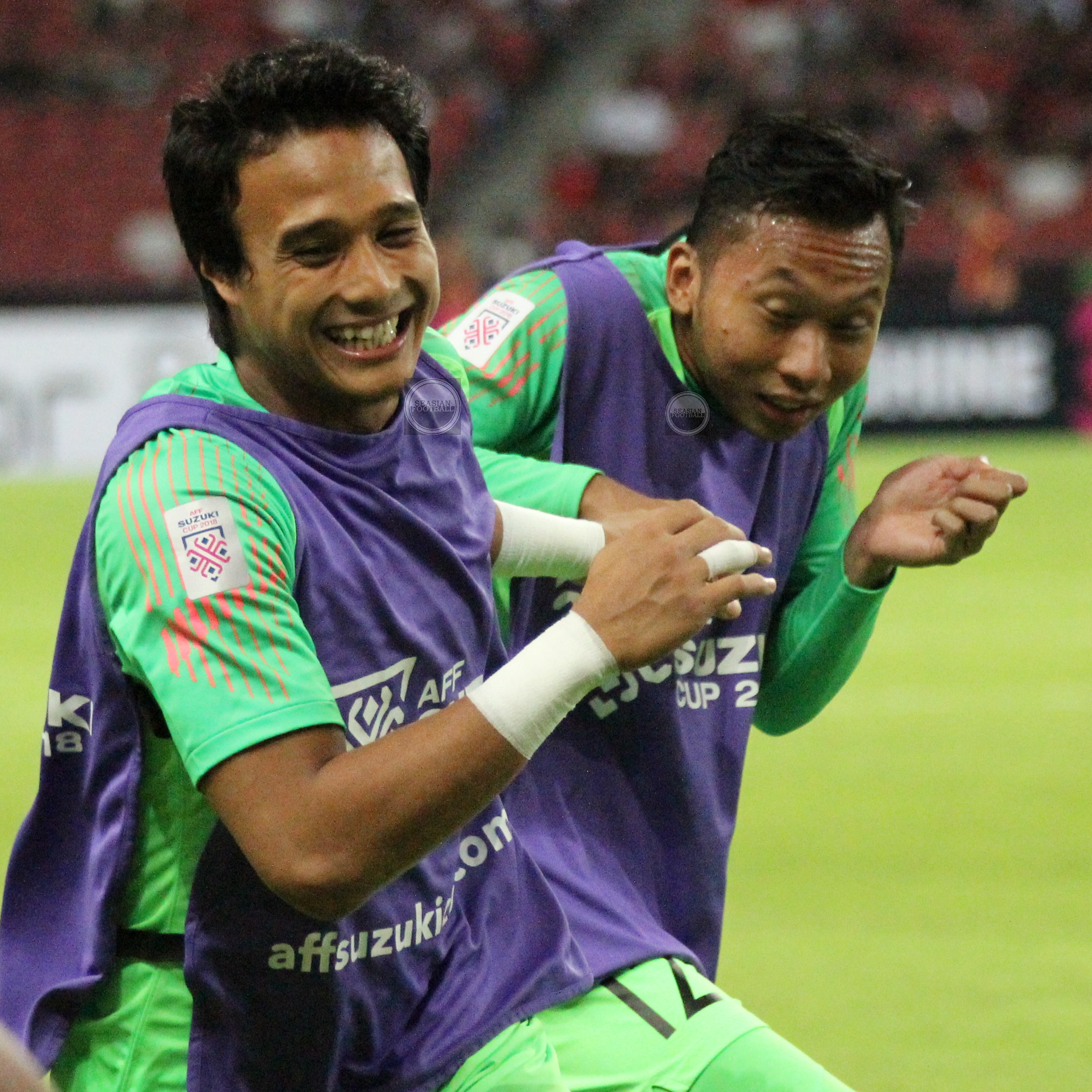 Muhammad Ridho and Awan Setho in National Stadium Singapore